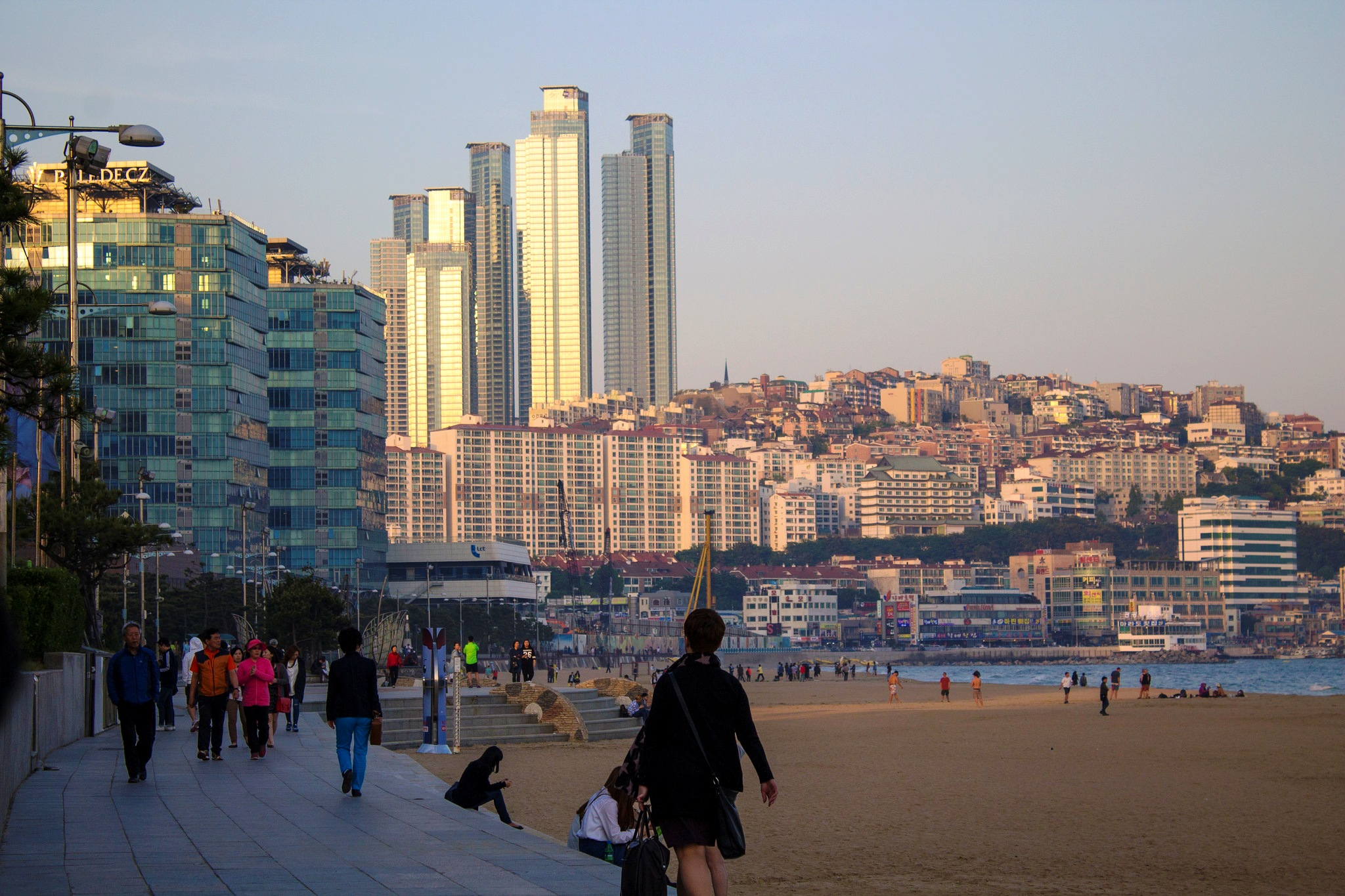 View of the eastern side of Haeundae, including Dalmaji Hill. Busan, South Korea. Photograph from Flickr; author Francois Powell; license of cc by 2.0.